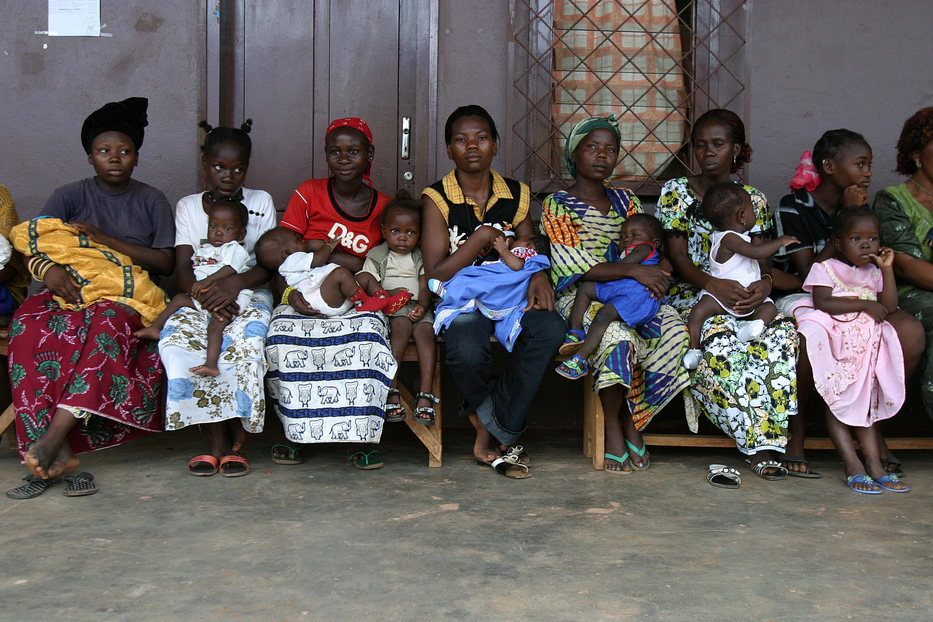 Mothers and babies aged between 0 and 5 years are lining up in a Health Post at Begoua, a district of the Central African Republic’s capital Bangui, waiting for the two drops of the oral polio vaccine that will prevent paralysis and death, 15 May 2008. UNICEF Goodwill Ambassador Mia Farrow launched the 3-day polio vaccination campaign at the start of her visit to CAR. Despite the progress over the past few years, medical care remains both costly and inaccessible for many families across CAR. Despite tremendous progress, vaccination coverage for preventable diseases stands at less than 50% and one child in five does not live to celebrate his or her fifth birthday.